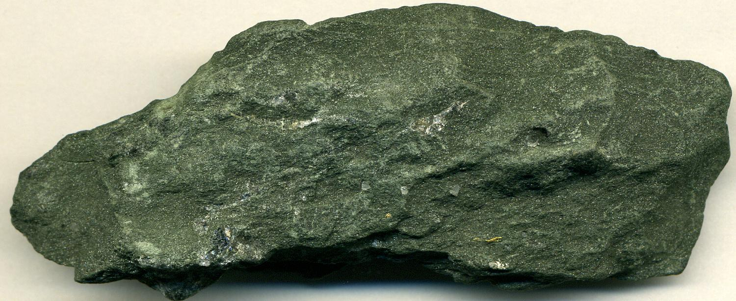 Auriferous greenschist (8.5 cm across) from the Homestake Mine, town of Lead, northern Black Hills, western South Dakota, USA. Two small masses of native gold (Au) are visible near the bottom margin. The largest gold mine in the Americas was the long-lived Homestake Mine in the town of Lead (pronounced “Leed”), South Dakota, USA. Located in the Lead Window of the northern Black Hills Uplift in western South Dakota, the Homestake Mine produced about 40 million ounces of gold. The gold at Homestake is almost exclusively confined to the Homestake Formation, a Paleoproterozoic (~1.9-2.0 billion years) sedimentary unit that originally consisted of interbedded Mg-rich siderite iron formation and marlstones. The Homestake Formation has been strongly deformed & multiply metamorphosed, and many of the original rocks were converted to greenschists (cummingtonite schists). The gold has been interpreted as having been originally deposited with the iron formation sediments by seafloor volcanogenic exahalative processes. Slight metamorphic gold mobilization and tight structural folding has resulted in the formation of auriferous greenschist pods along fold axes.